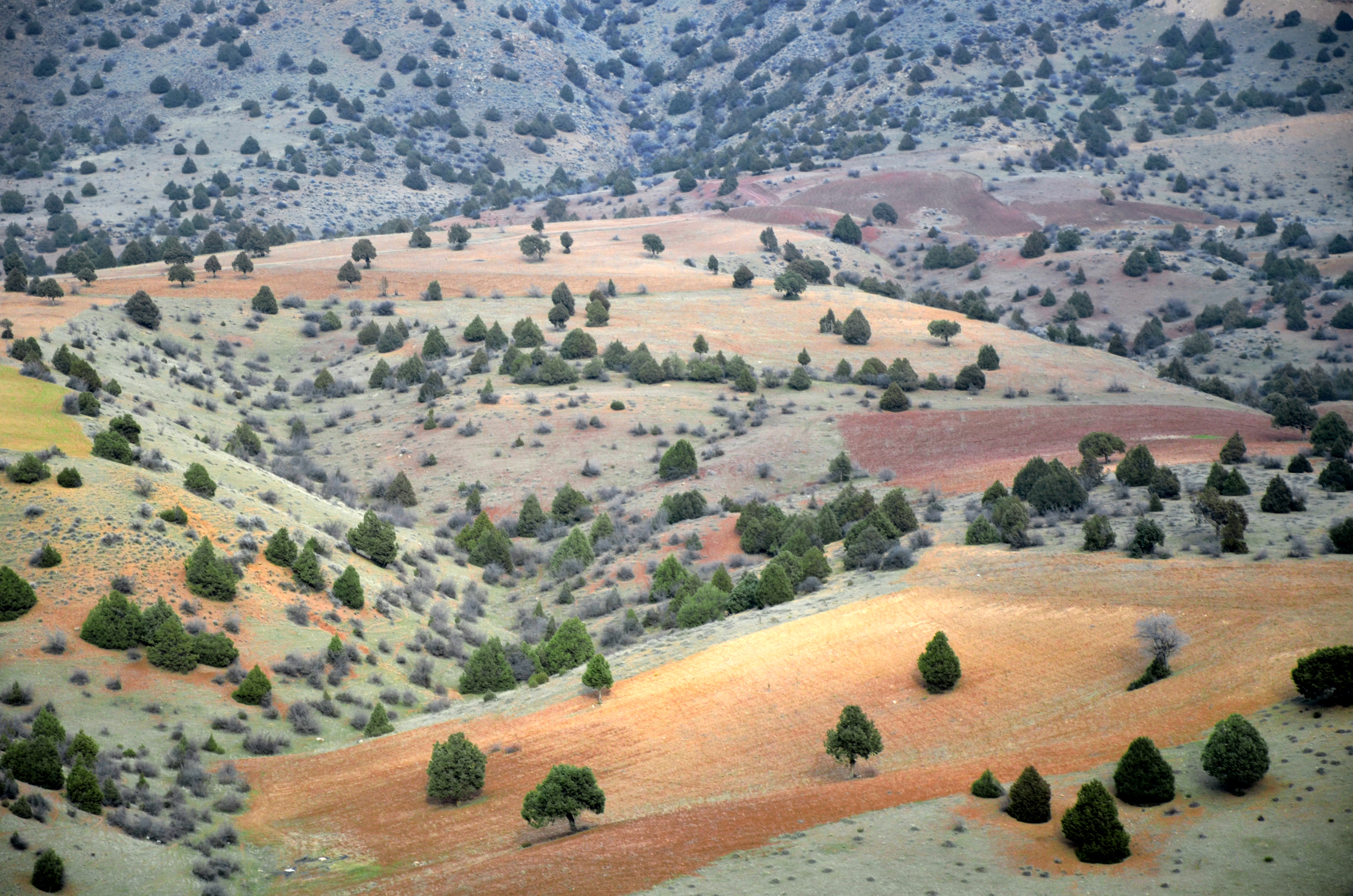 Barandagh - Nature of Agh Dagh